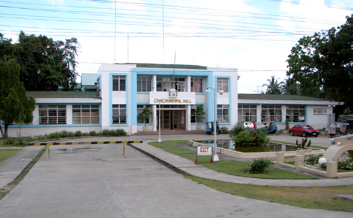 Municipal Building of Loon, Bohol, Philippines